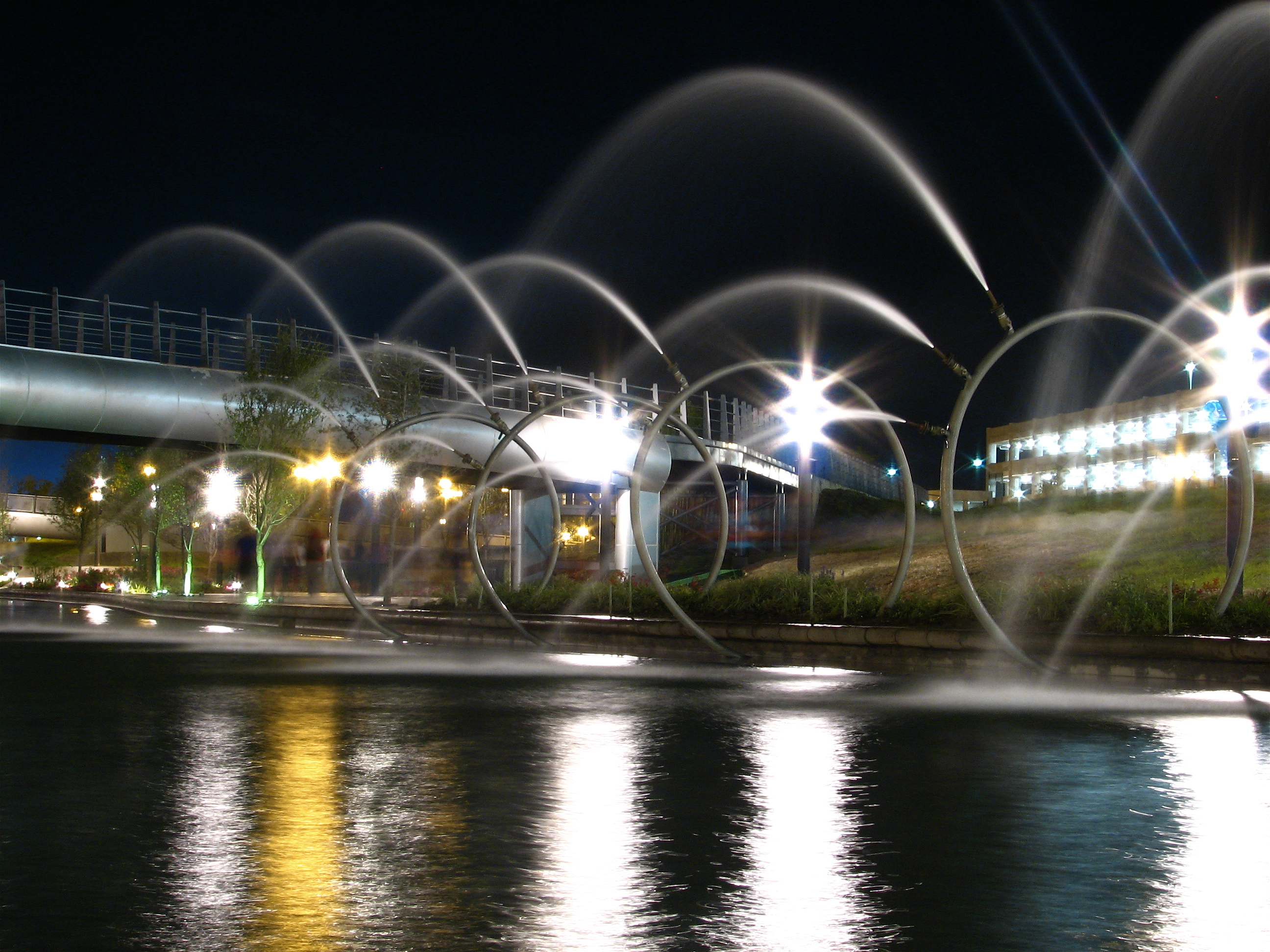 A fountain in Parque Fundidora, Monterrey, Mexico.